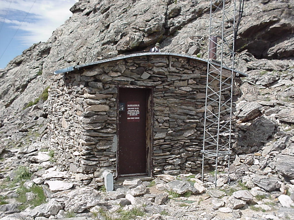 Front of the Twin Sisters Lookout (also known as the "Twin Sisters Radio Tower"), located on the Twin Sisters in far eastern Rocky Mountain National Park, in Larimer County south of Estes Park, Colorado, United States. Built in 1914, it is listed on the National Register of Historic Places.